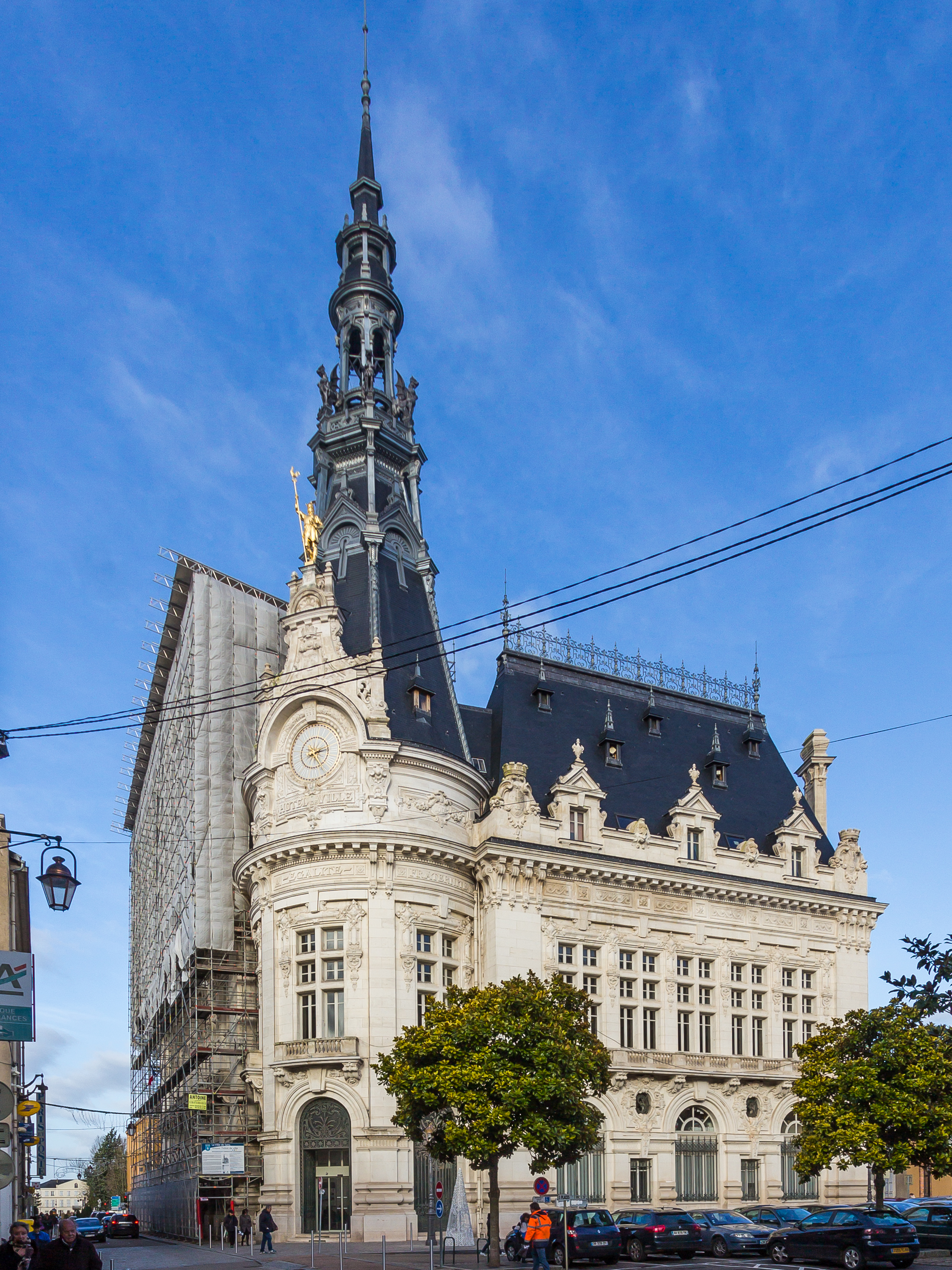 Town hall of Sens